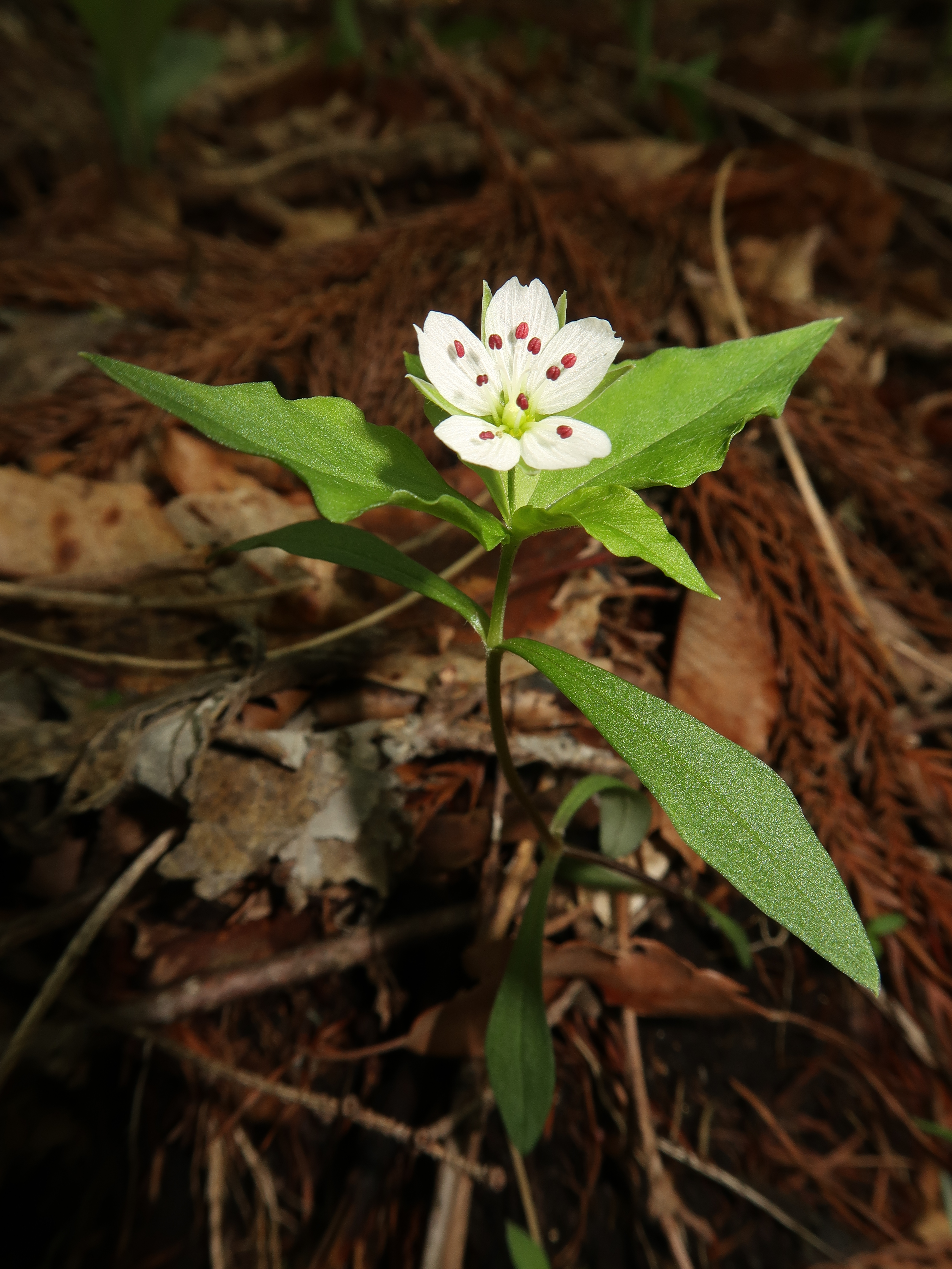 Pseudostellaria heterophylla, Naka-dori area, Fukushima pref., Japan